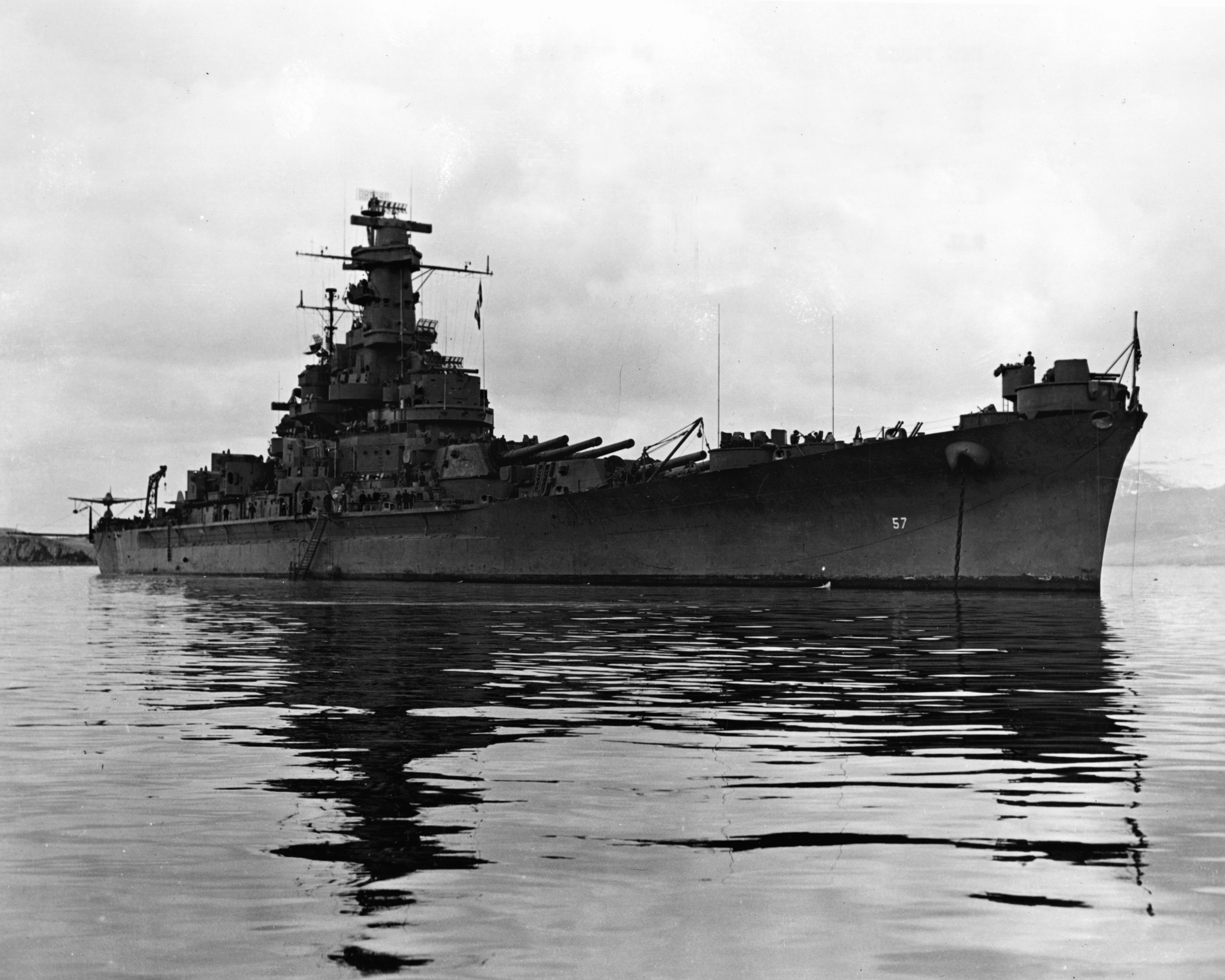 The U.S. Navy battleship USS South Dakota (BB-57) anchored in Hvalfjörður, Iceland, on 24 June 1943.